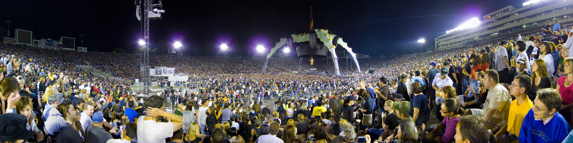 Pano from the Rose Bowl, Pasadena, California.